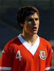 Aaron Ramsey lines up for Wales U21s